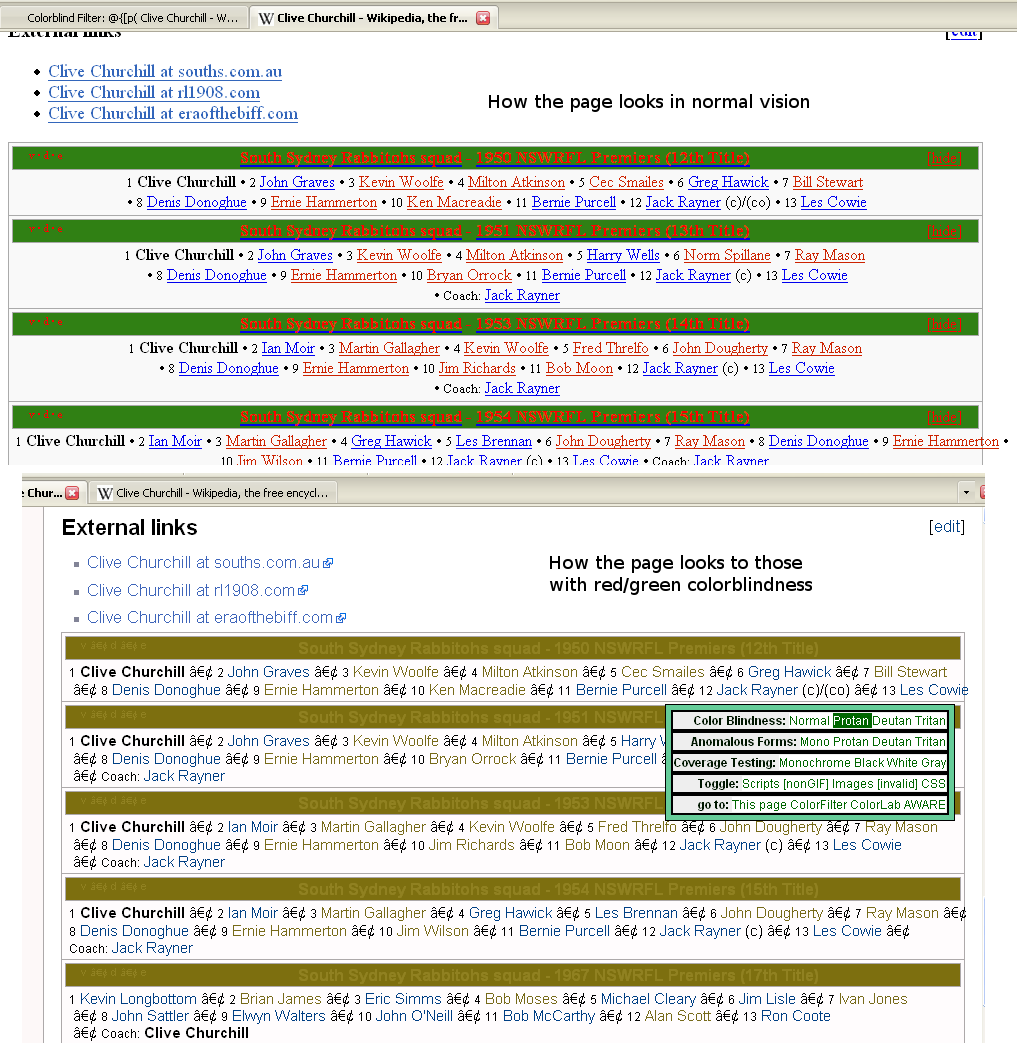 Two screenshots of some of the infoboxes at the bottom of Clive Churchill (at the time of upload), one filtered through a site that attempts to show how colorblindness affects perception. The use of team colors in the templates presents a problem here.